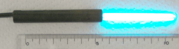 Low-pressure pen-style Hg lamp. Scale is in cm.